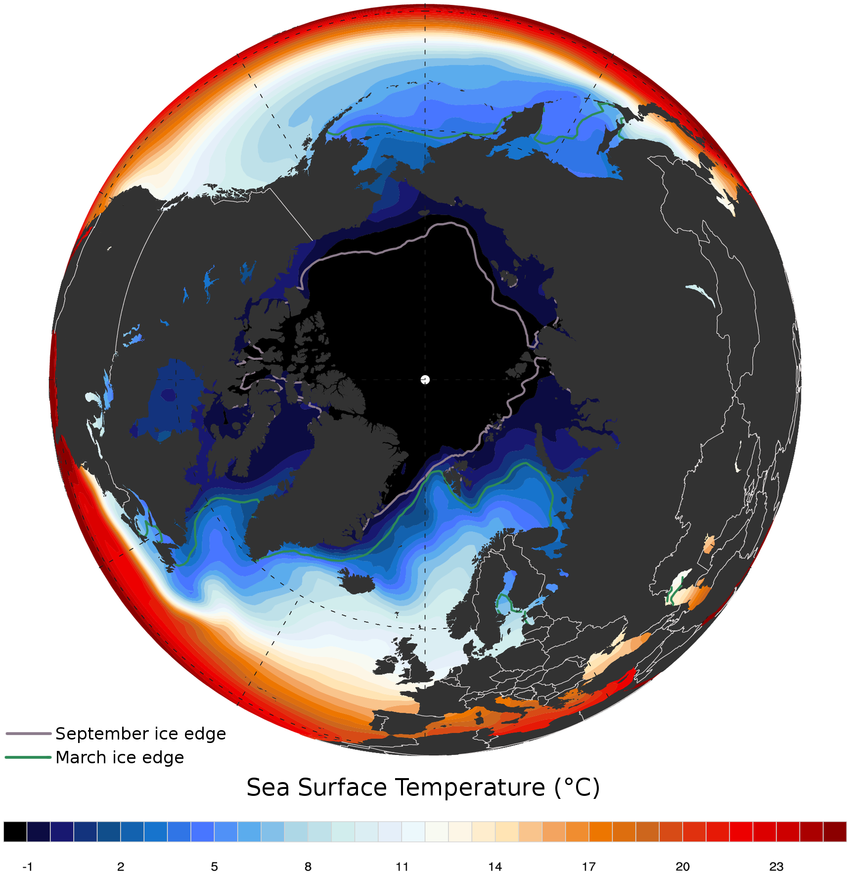 Arctic annual mean (1982-2009) sea surface temperature and September/March ice edge (1995-2009 mean). Data